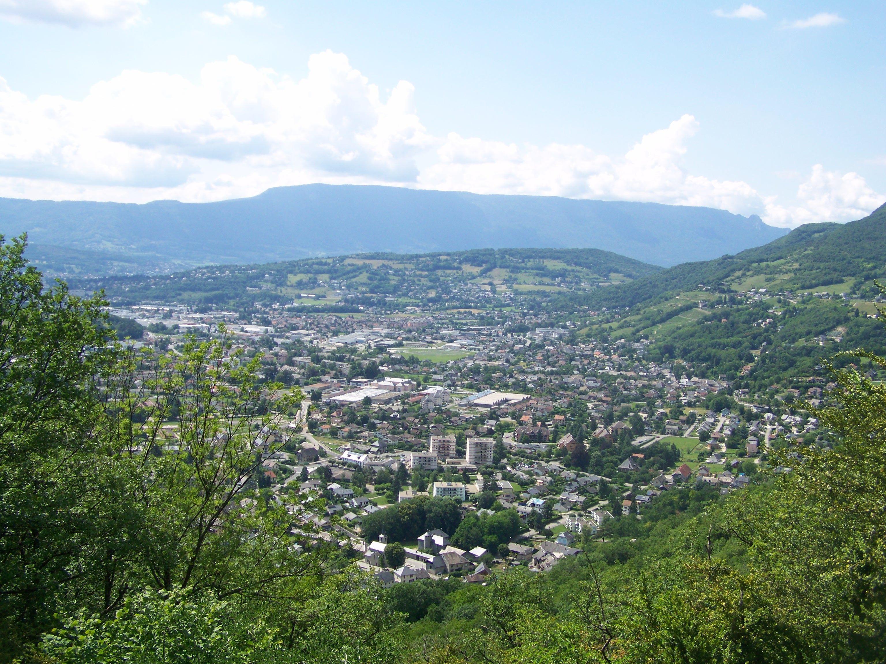 Panoramic view of commune of Saint-Alban-Leysse near Chambéry in Savoie, France.